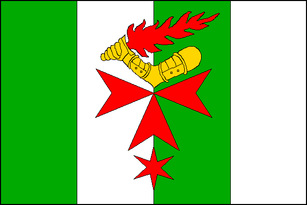 Municipal flag of Blatno village, Louny District, Czech Republic.